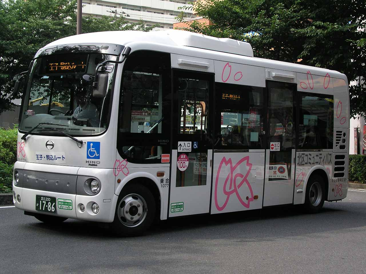 fleet of Tokyo Kita ward Community route bus, operated by Hitachi Jidosha Kotsu. Model: Hino Poncho BDG-HX6JLAE License plate: TKA200 KA1786 Place: neighbour of Komagome station, Toshima ward, Tokyo Japan